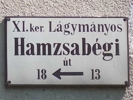 Street sign. - Hamzsabégi Street in neighborhood, 11th district of Budapest.